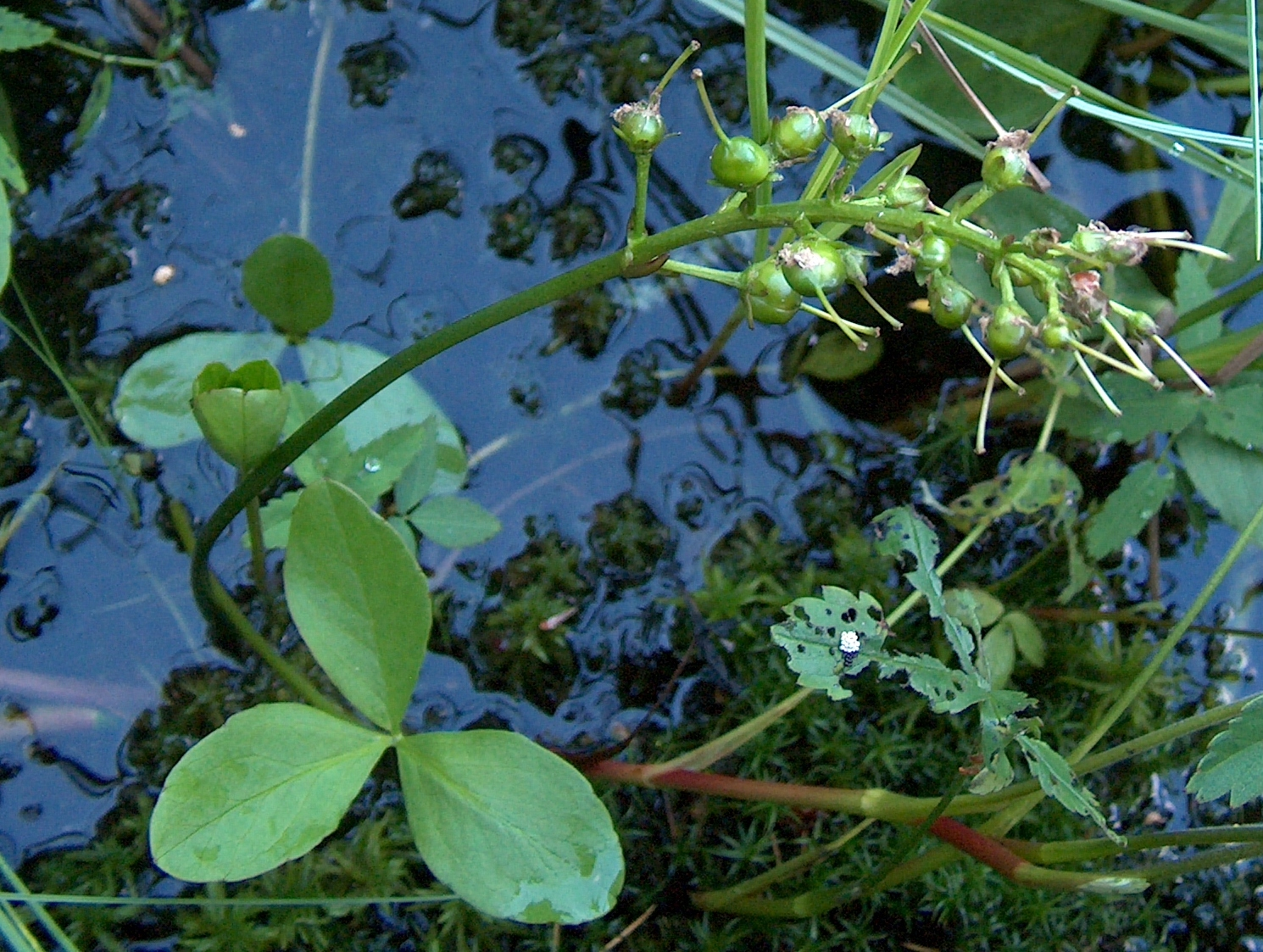 Buckbean/Bogbean, Menyanthes trifoliata - Fruiting in Kerava, Finland